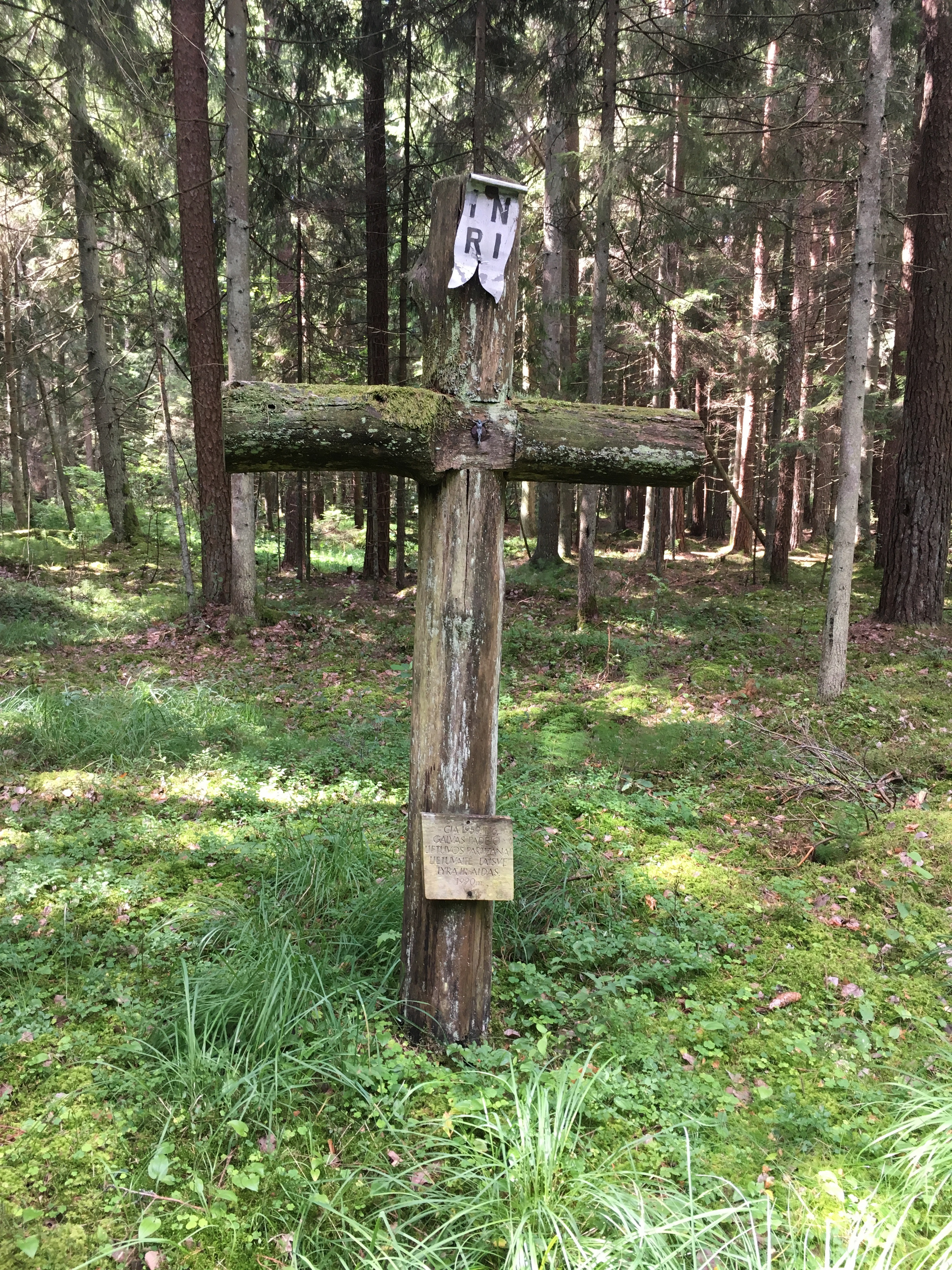 Memorial cross to the Lithuanian Freedom fighters in Aisėnai forest